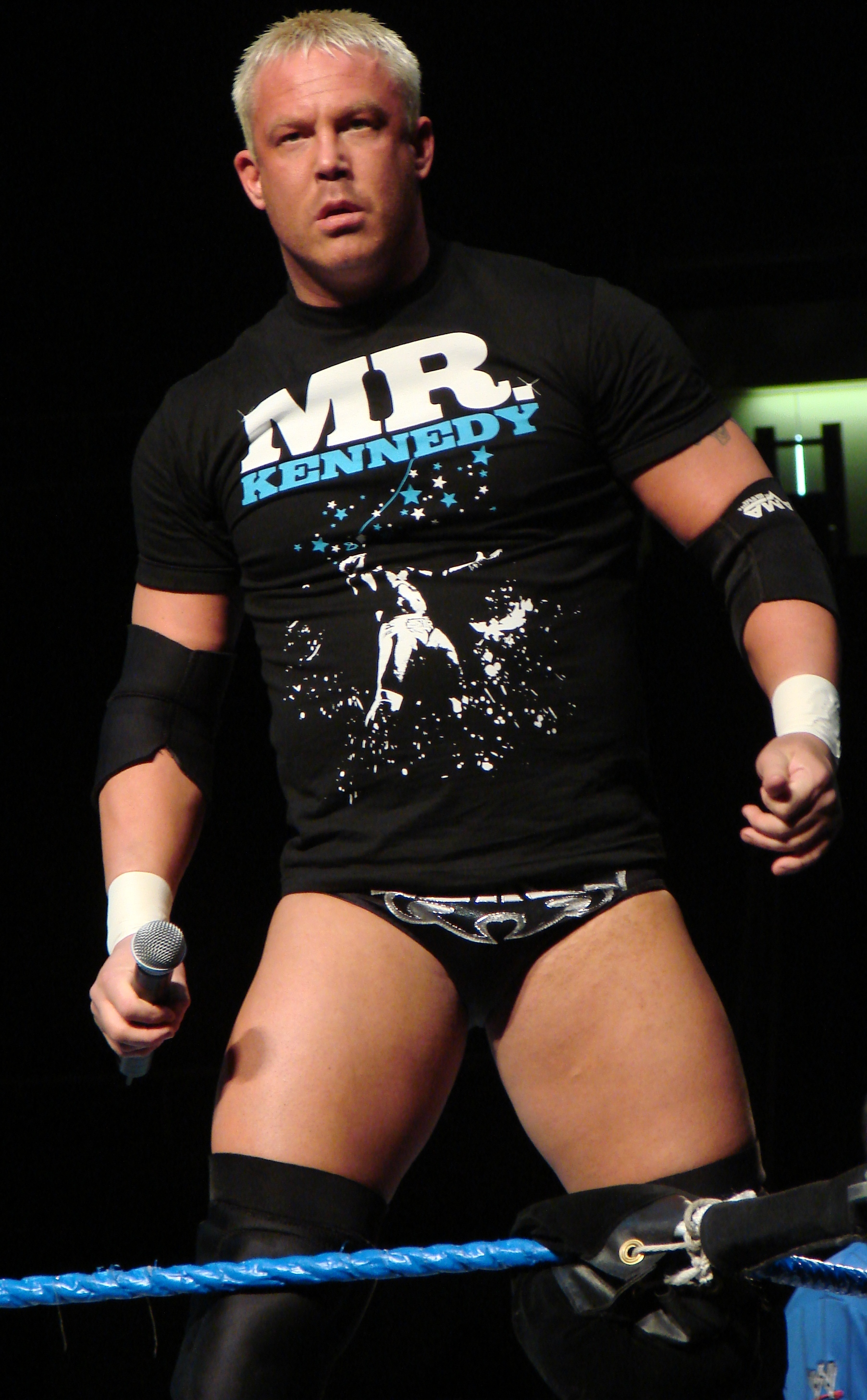 Mr. Kennedy at a SmackDown! Live event.